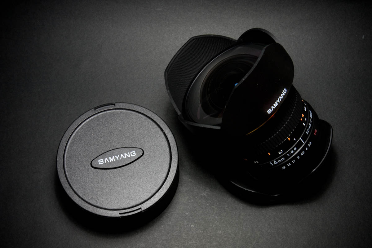 A Manual focus prime lens, Can't afford for the Canon 14mm F2.8L